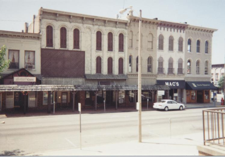 Downtown Crawfordsville, Indiana as seen from the courthouse in 1997.